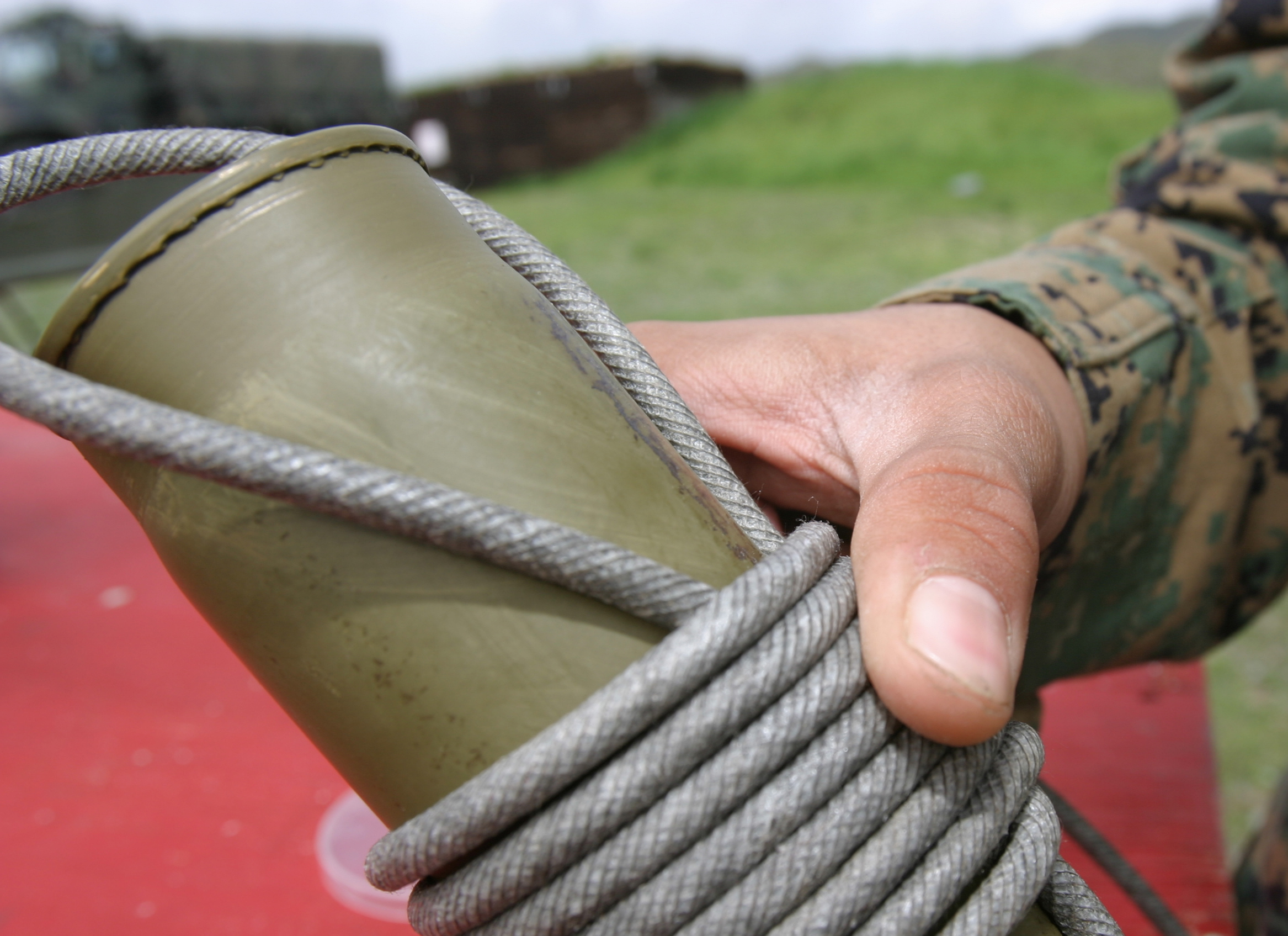 A Marine wraps detonation cord around a Bangalore Torpedo. The det cord attaches to a nonelectrical firing system and will burn fast to ignite the torpedo. The Bangalore is used to clear obstacles such as constantina wire or fences.